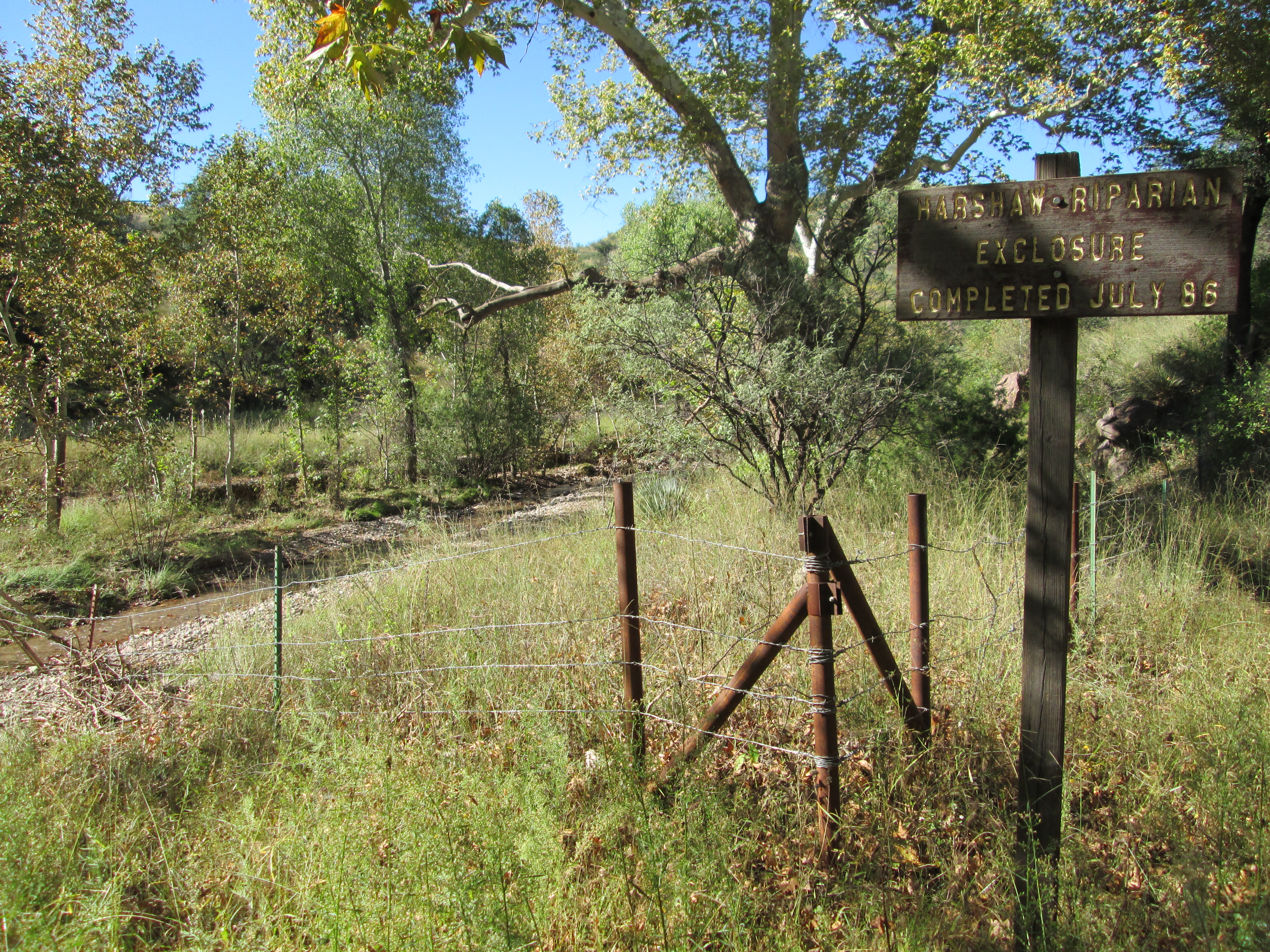 The southern end of the Harshaw Riparian Exclosure, a small nature preserve near Harshaw, Arizona. Part of Harshaw Creek is at the left.